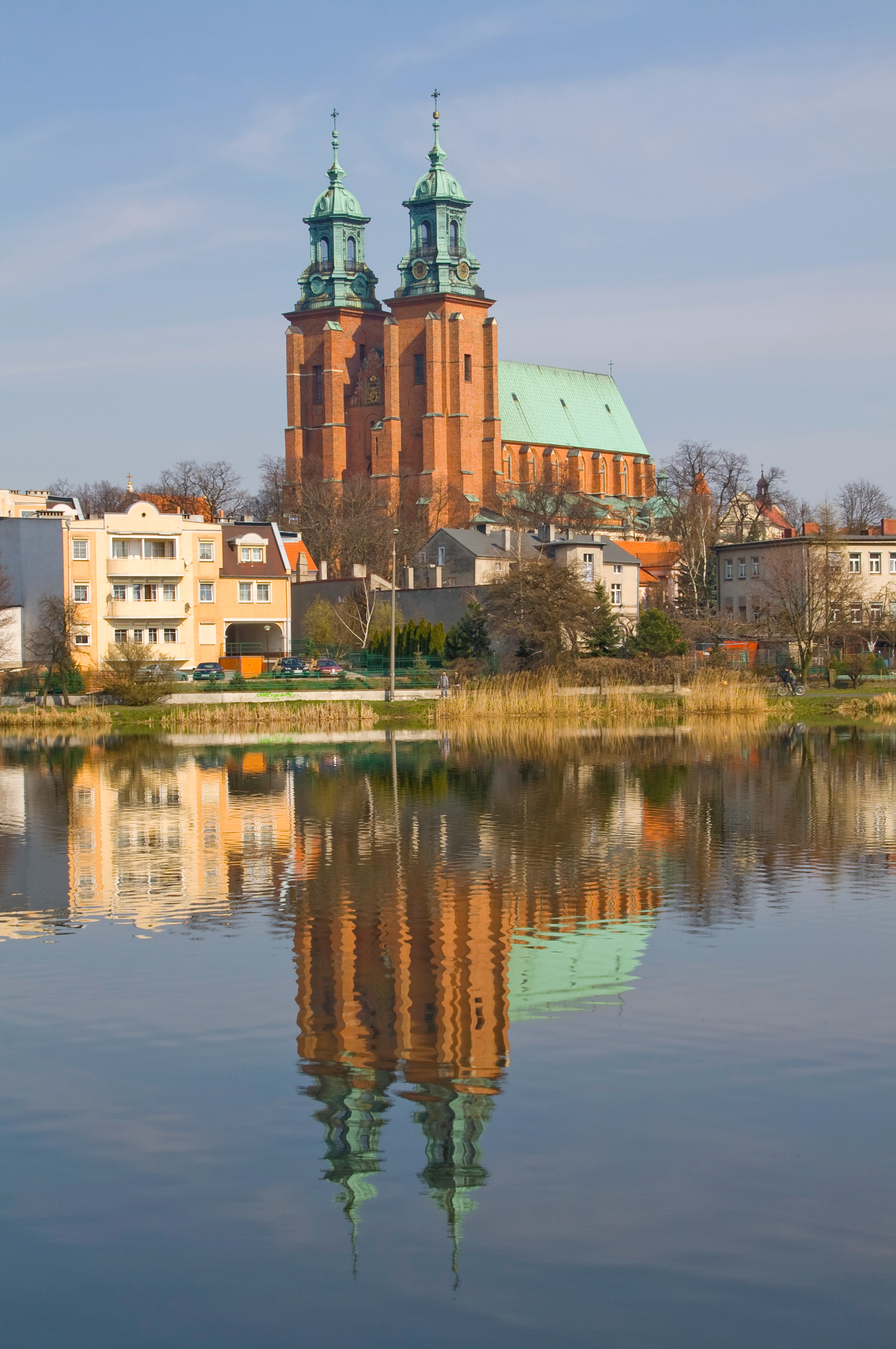 Exterior of the Gniezno Cathedral, Gniezno, Poland